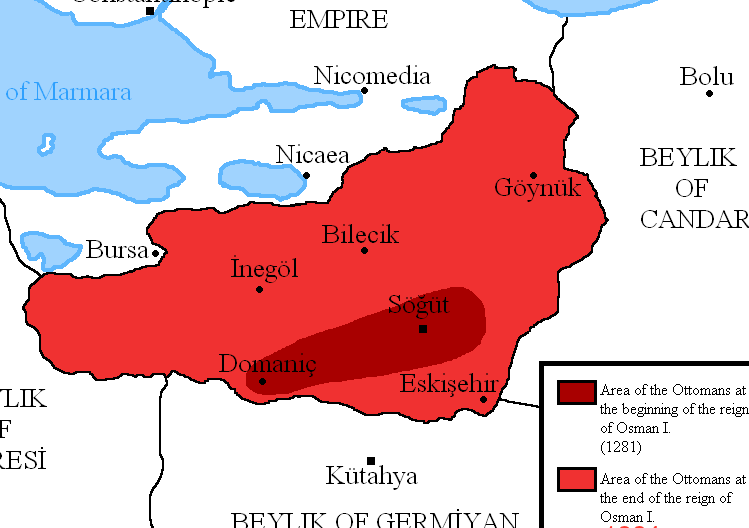 Map showing the area of the Ottoman Empire during the reign of Osman I and his conquests. I used the information of various historical books and these maps